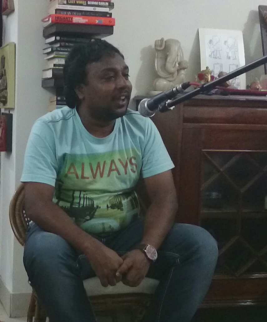 Bollywood lyricist reciting poetry in a poetry event on 14 September, 2014, organized by Poets Corner Group in Mumbai. This picture is my own work.